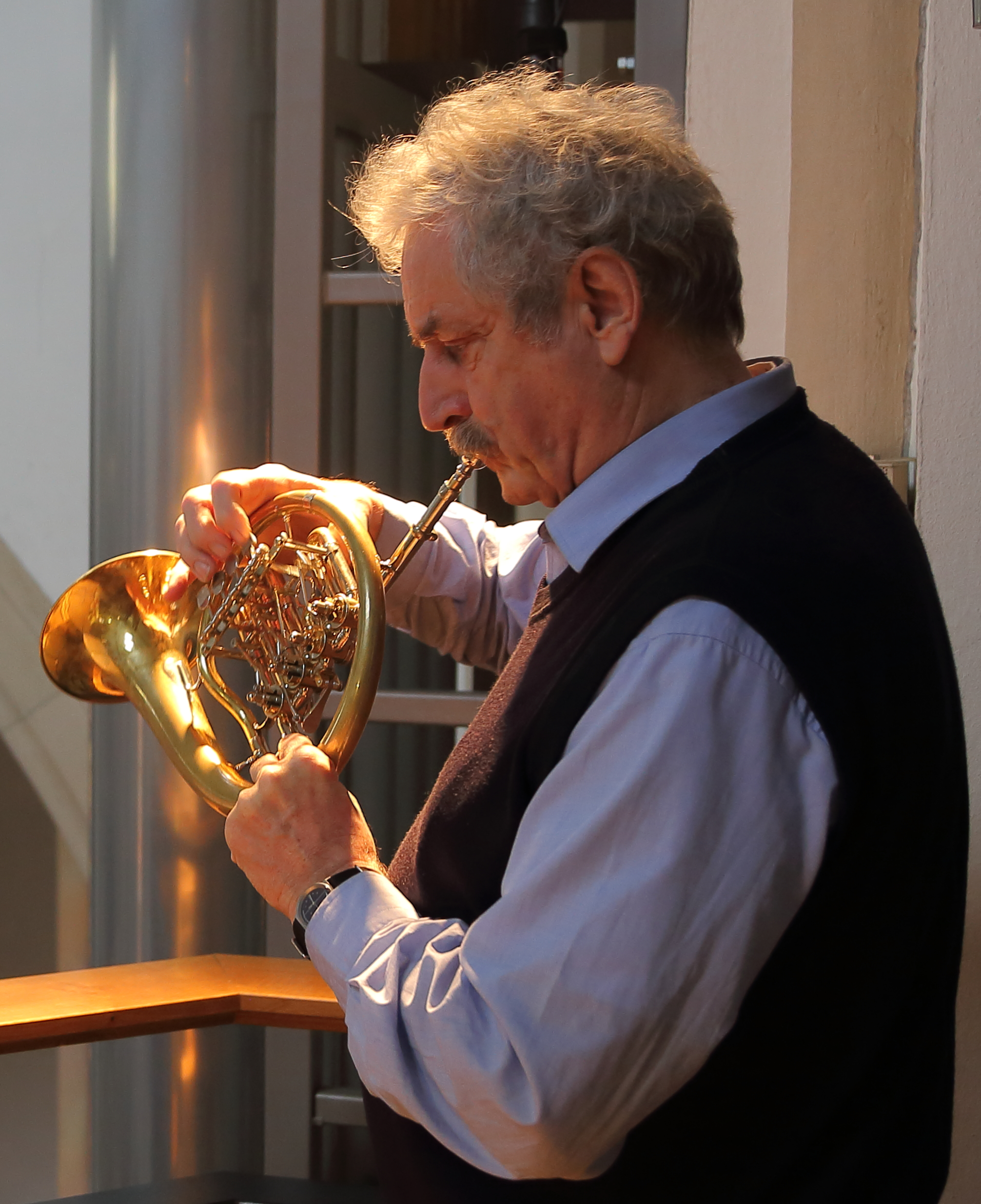 Ludwig Güttler with his Corno da caccia during the rehearsal for the concert Herzlich lieb hab ich dich, o Herr (From my Heart I Hold You Dear, o Lord) at the Roman Catholic St Agatha Parish Church (Pfarrkirche St. Agatha) in Mettingen, Kreis Steinfurt, North Rhine-Westphalia, Germany.